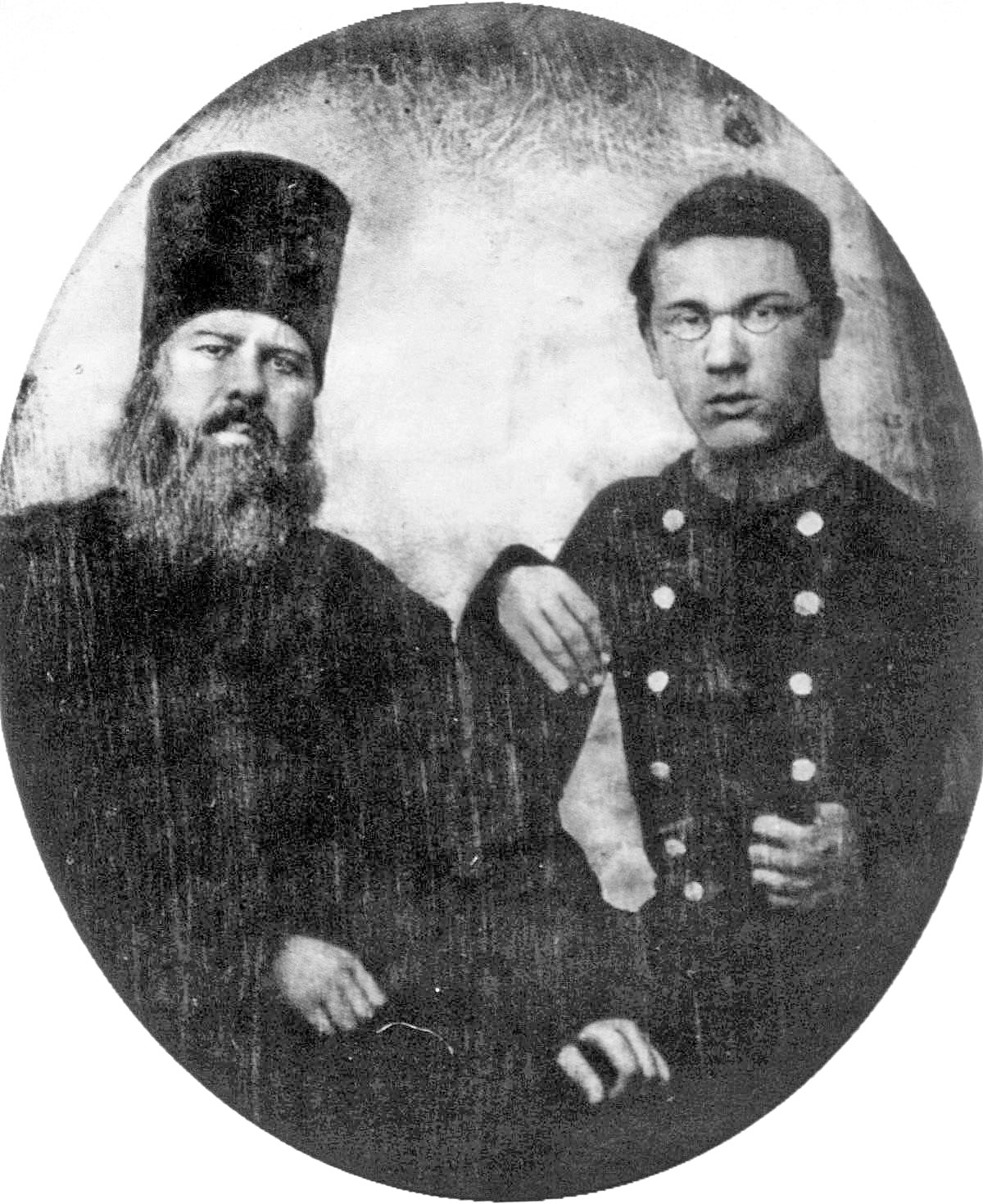 Student Nikolay Dobrolubov with his father Aleksandr